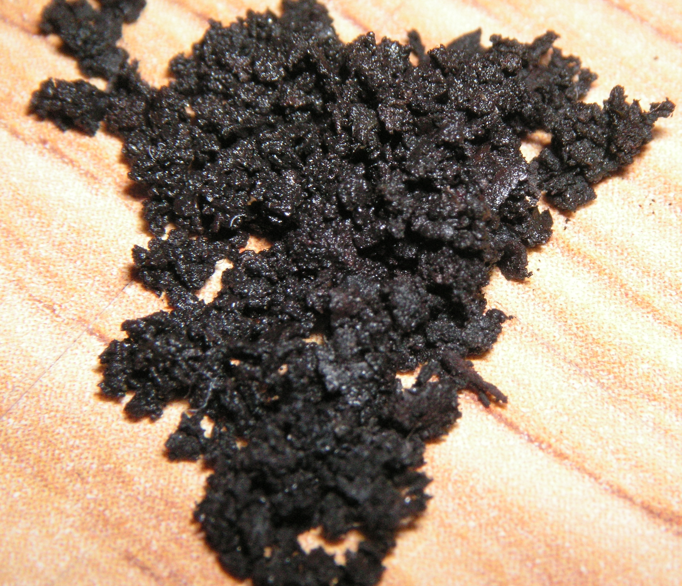 Tar scraped from a few pipes.